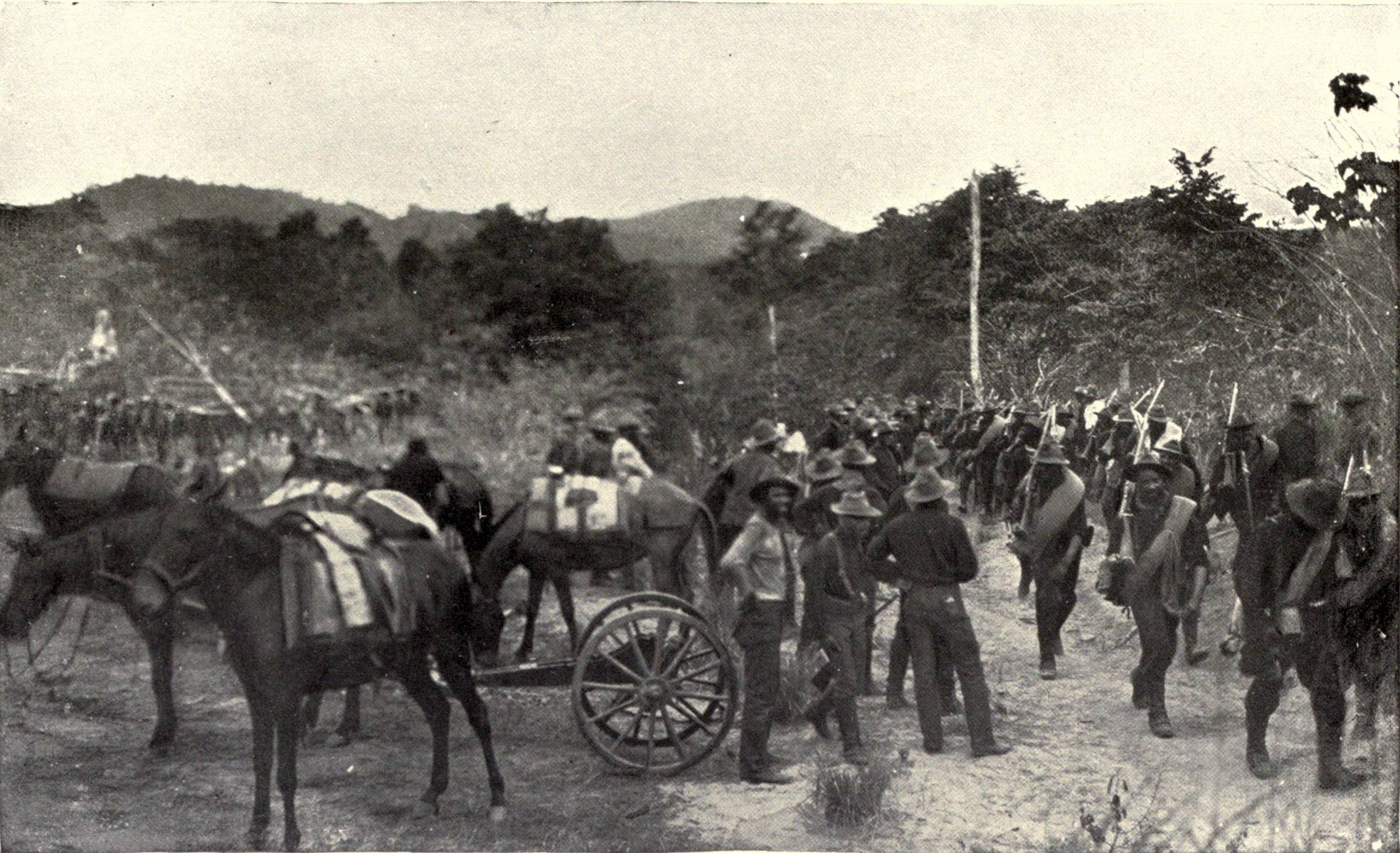 On the battleground of Las Guasimas — Americans going to the front. From p. 378 of Harper's Pictorial History of the War with Spain, Vol. II, published by Harper and Brothers in 1899.